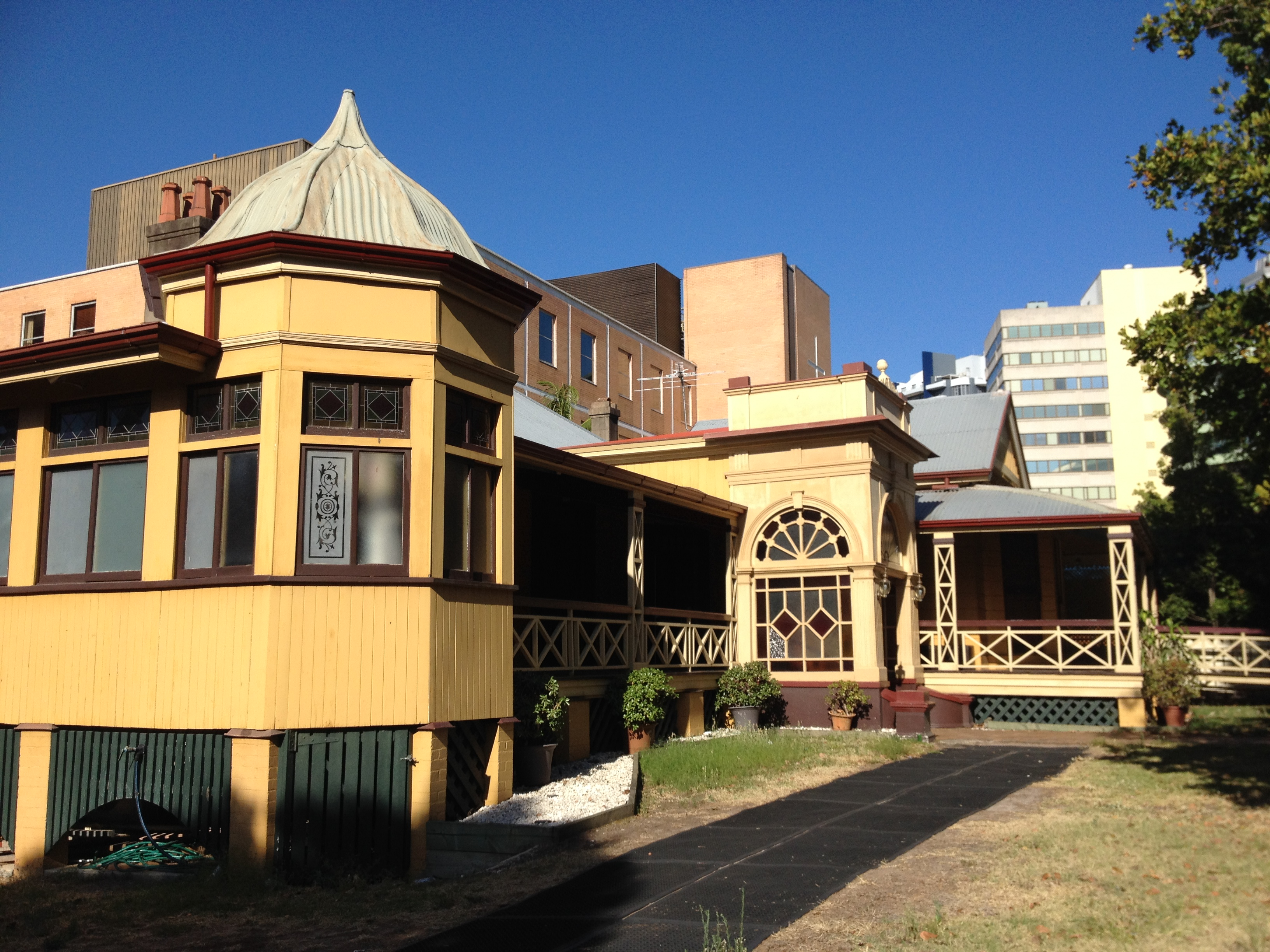 281 Wickham Terrace, Brisbane